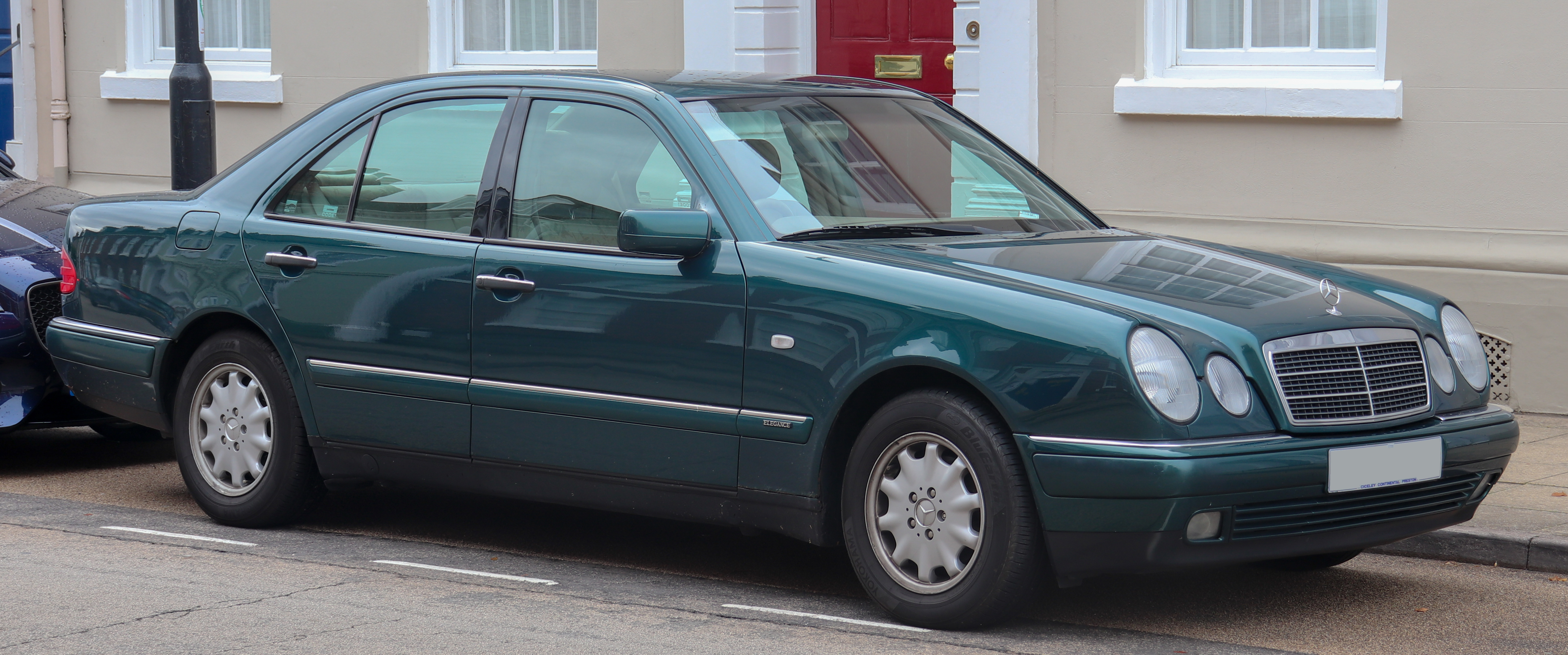 1998 Mercedes-Benz E200 Elegance Automatic 2.0 Taken in Warwick